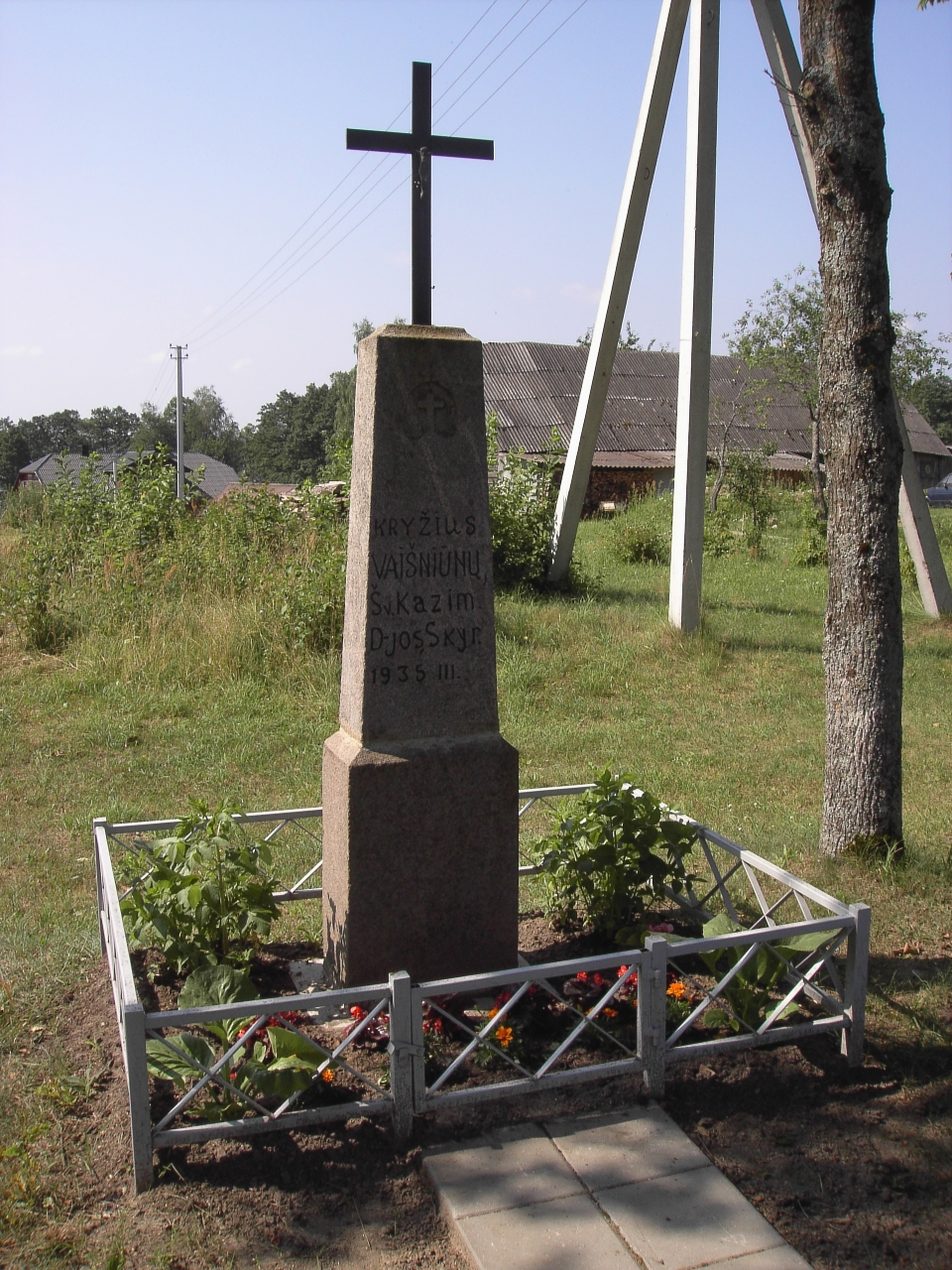 Wayside cross in Vaišniūnai, Ignalina district, Lithuania